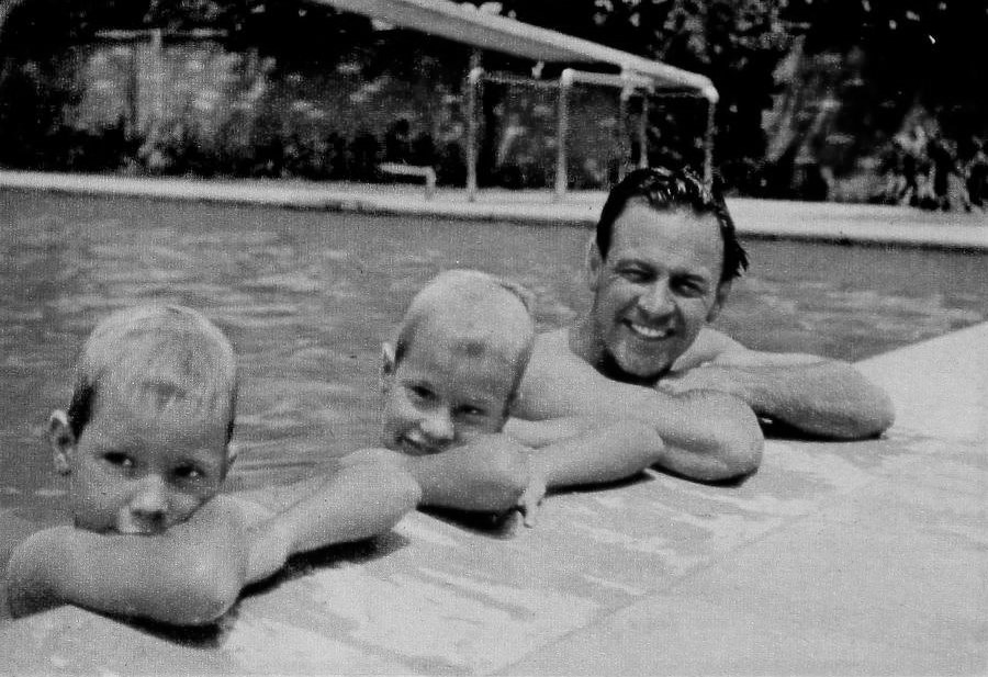 William Holden with his sons, 1954